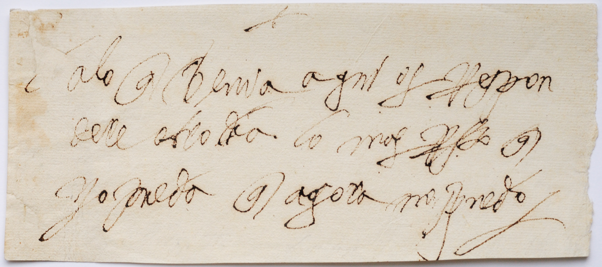 A typical short message by King Philip II of Spain to his trusted secretary Mateo Vázquez de Leca, around 1580/85 according to the development of the king's handwriting